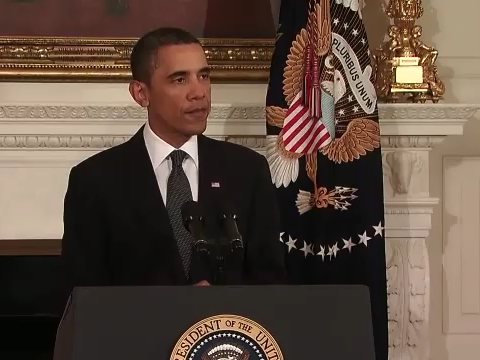 U.S. President Barack Obama speaking on the 2011 Tucson shooting. (Cropped from YouTube video widescreen, due to watermark)